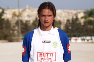 Picture of André Schembri.